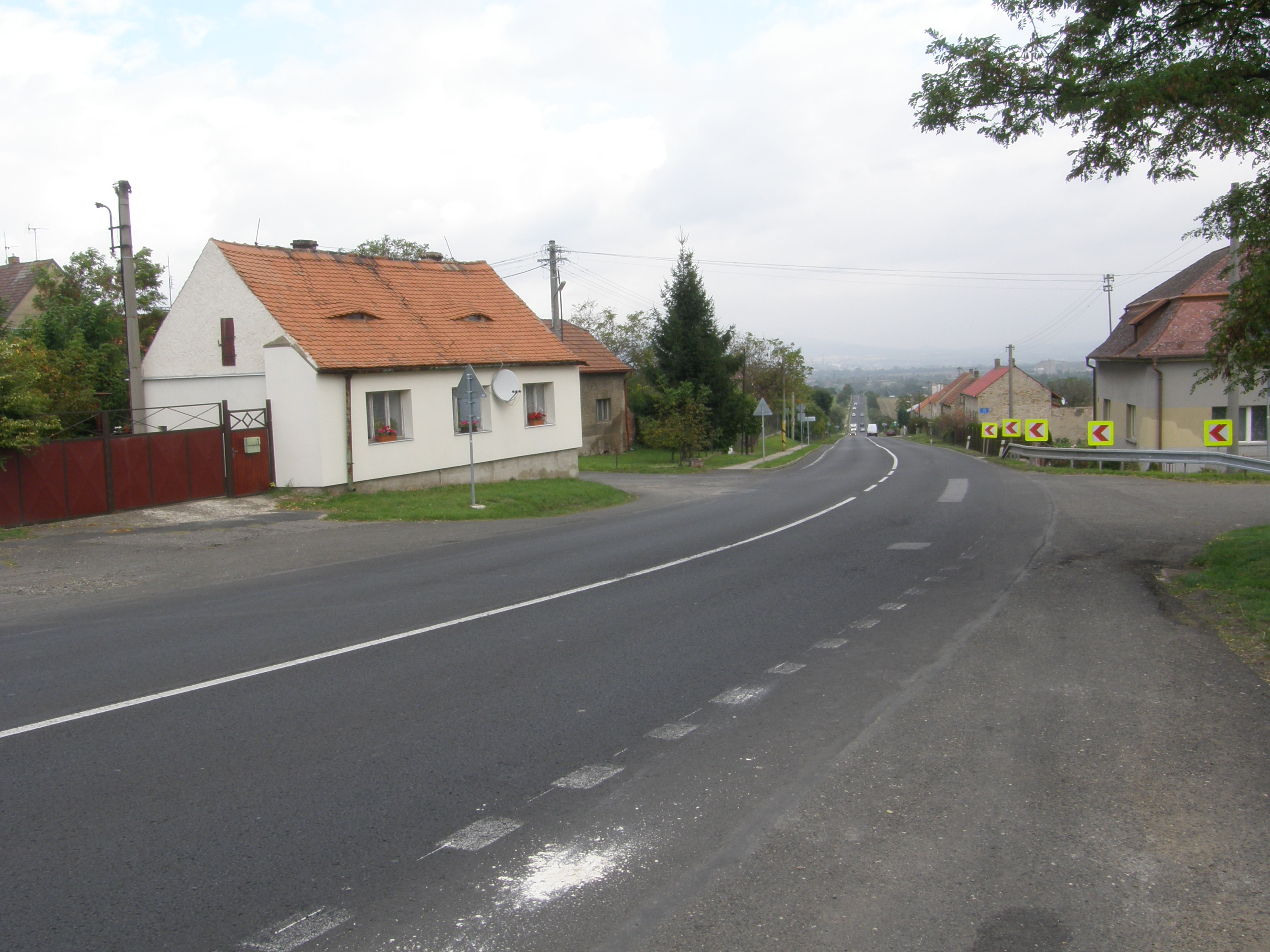 Main road through the village